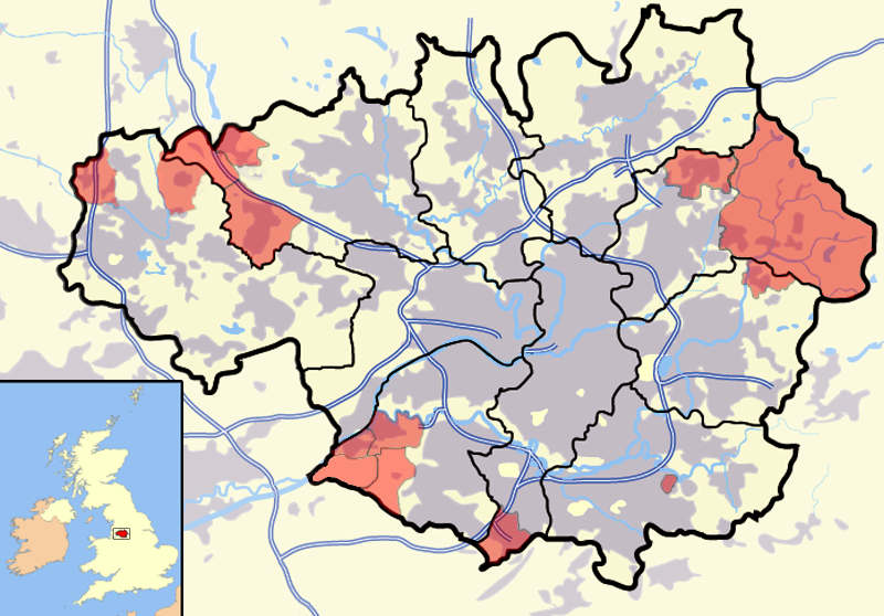 Civil parishes of the county of Greater Manchester, in England, United Kingdom